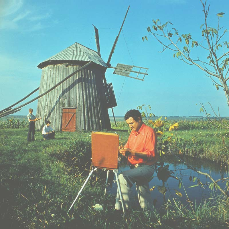 "The Moldavian artist Igor Vieru" (80th years).